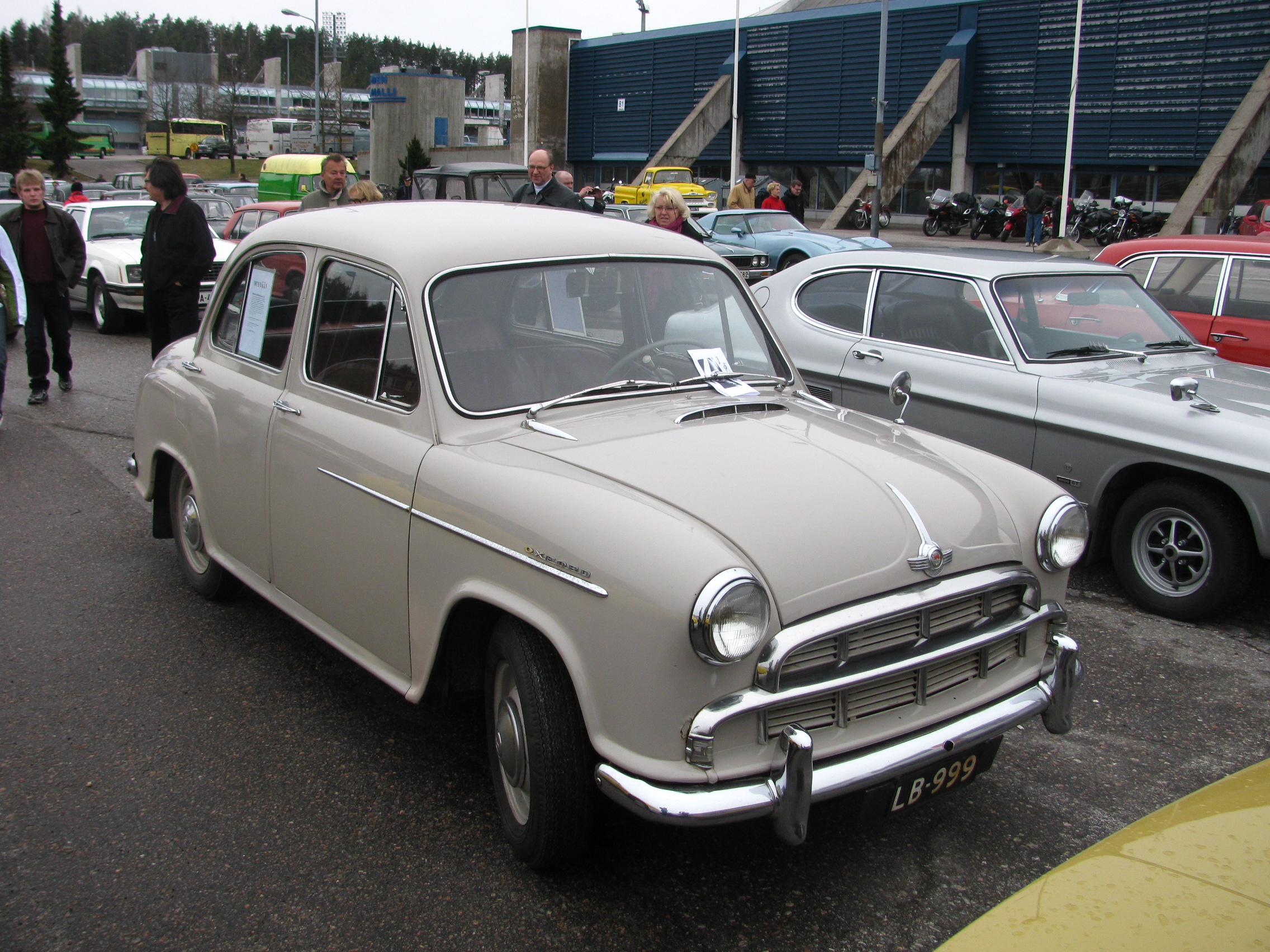 Morris Oxford, Classic Motor Show parking lot in Lahti, Finland.